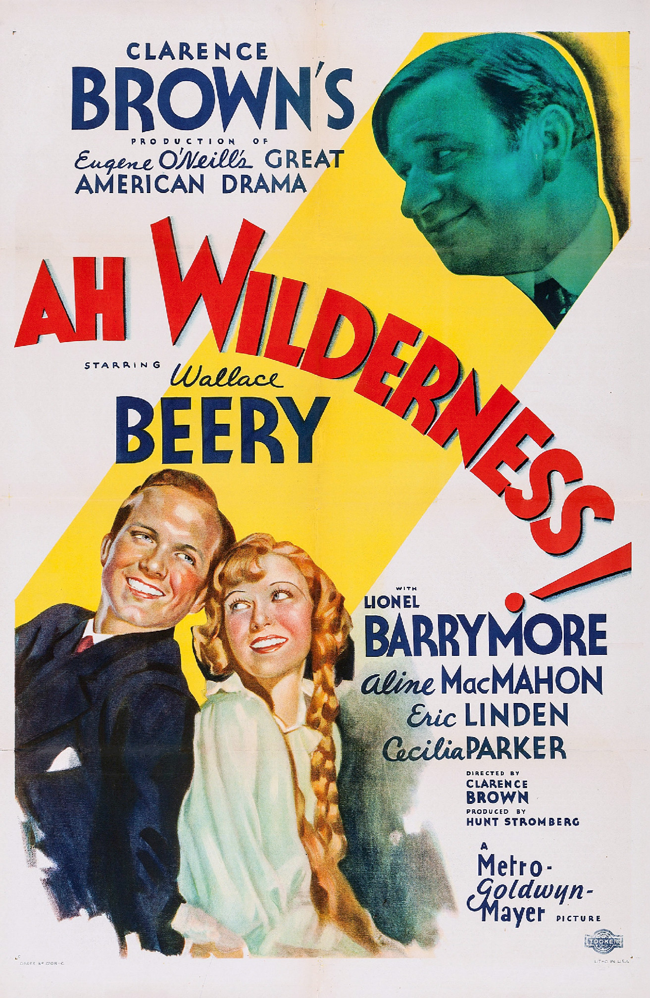 Poster for the 1935 film Ah, Wilderness.. The item has no copyright markings on it as can be seen in the links above and uncropped copy. At bottom left is "C"-Order No 7208-C. At bottom right is a Tooker Litho Co. NY logo-they printed the poster-and Litho in USA.